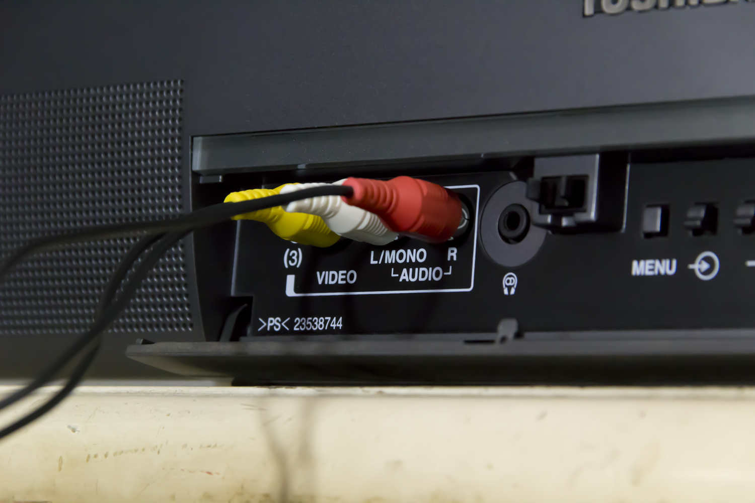 An AV terminal is connected to the TV